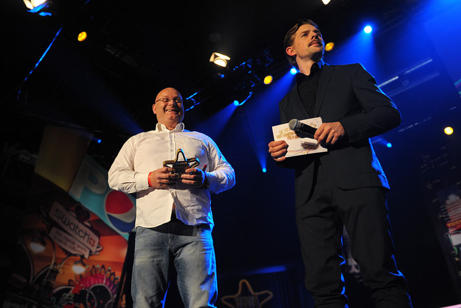 Jörg Sprave (l.) and Klaas Heufer-Umlauf (r.) (2014)